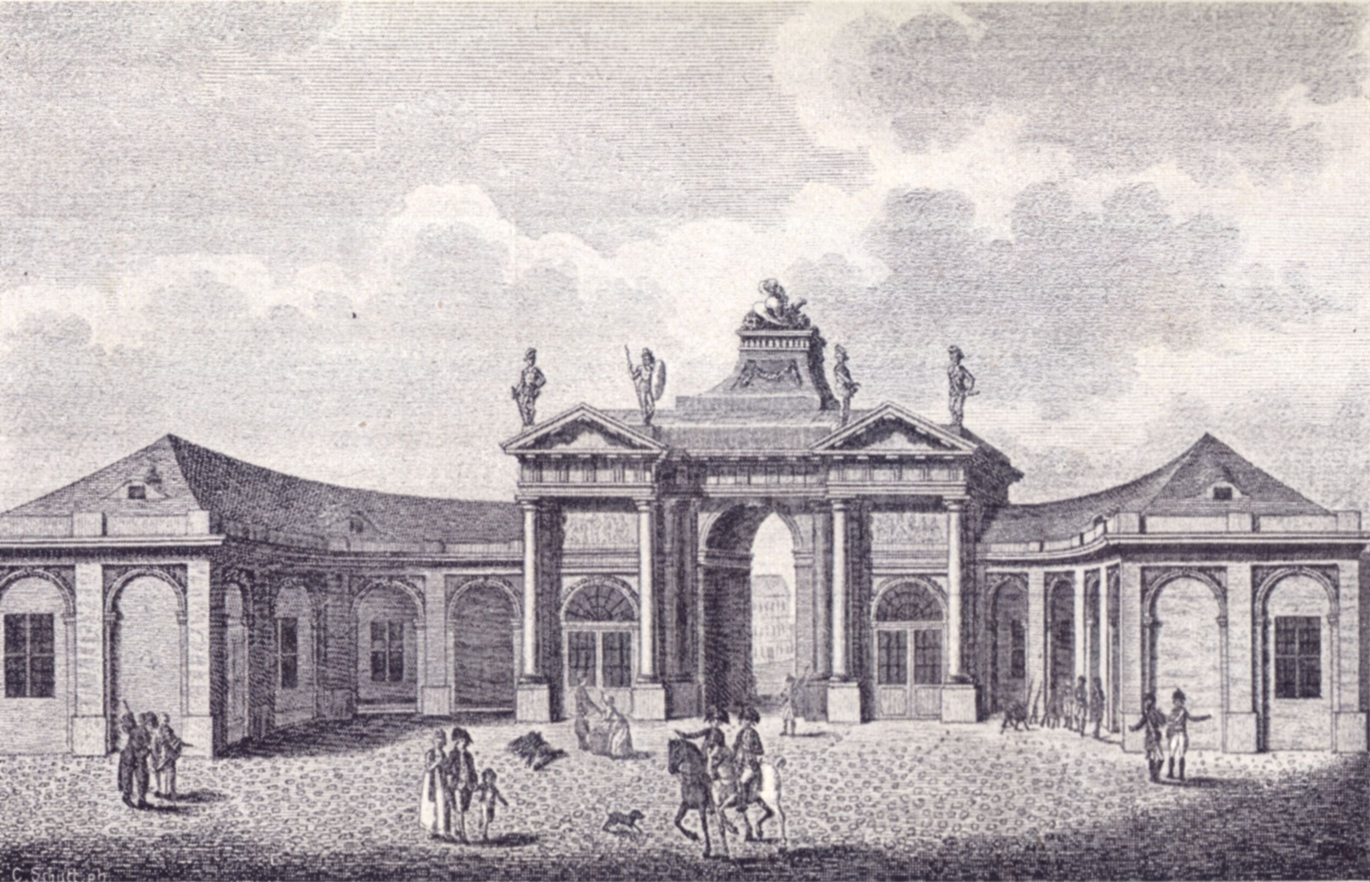 Berlin, Rosenthaler Gate (Rosenthaler Tor) around 1800